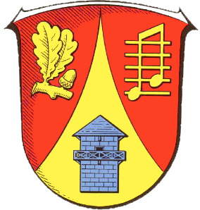 Coat of Arms of Pohlheim